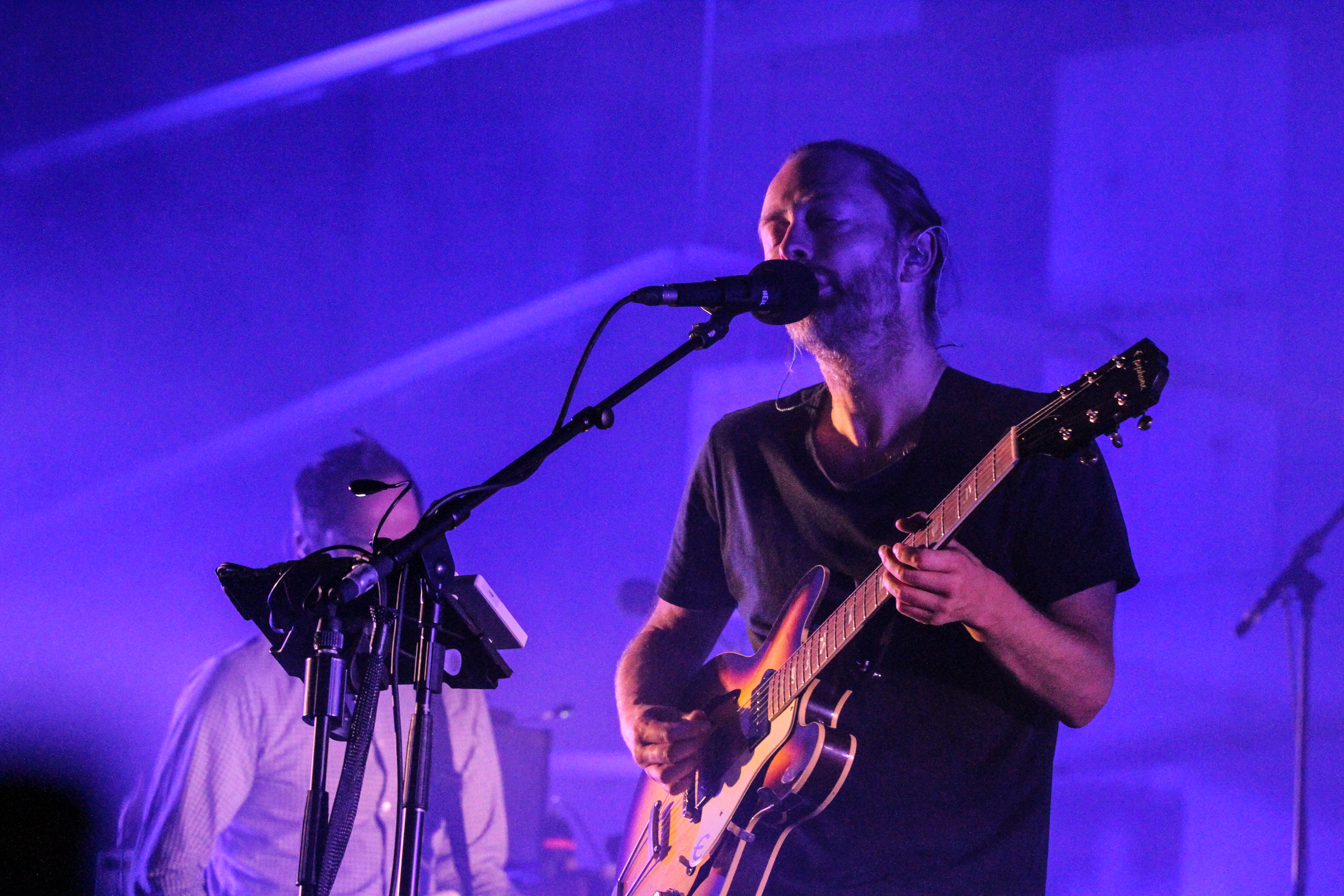 Atoms For Peace performing at Melt! Festival 2013